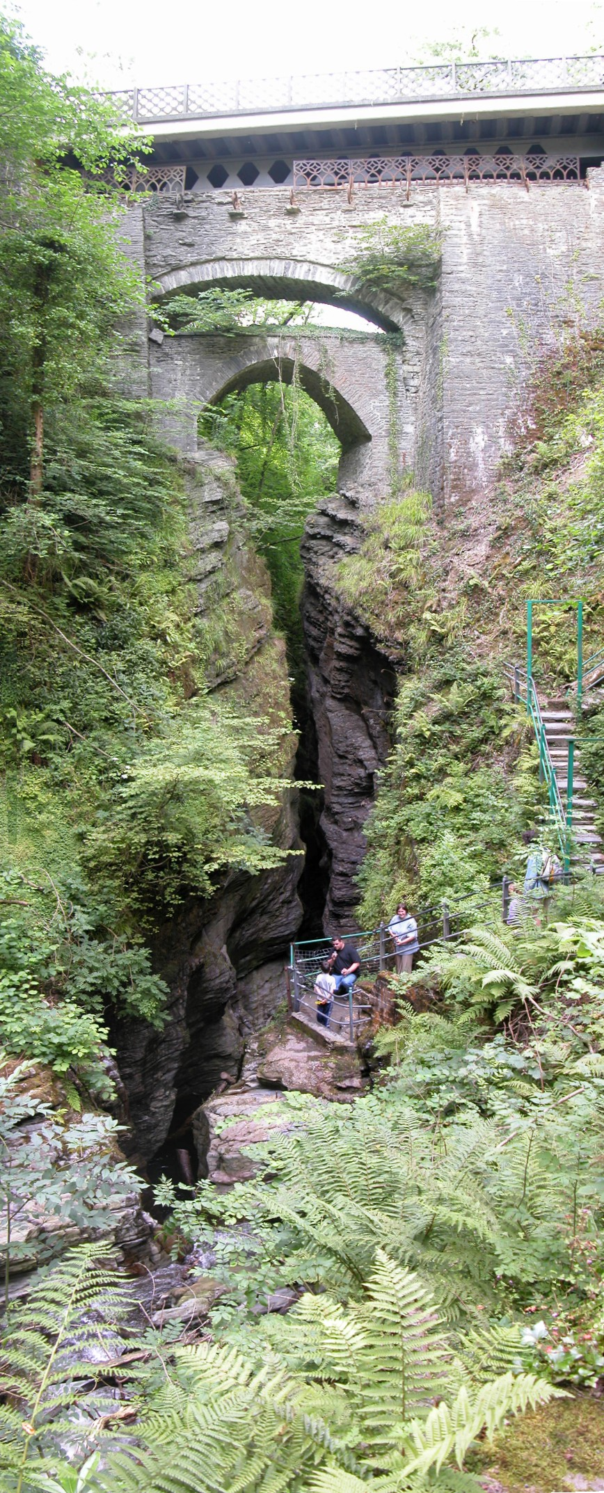 Devil's Bridge in Wales / (Pontarfynach in Welsh)